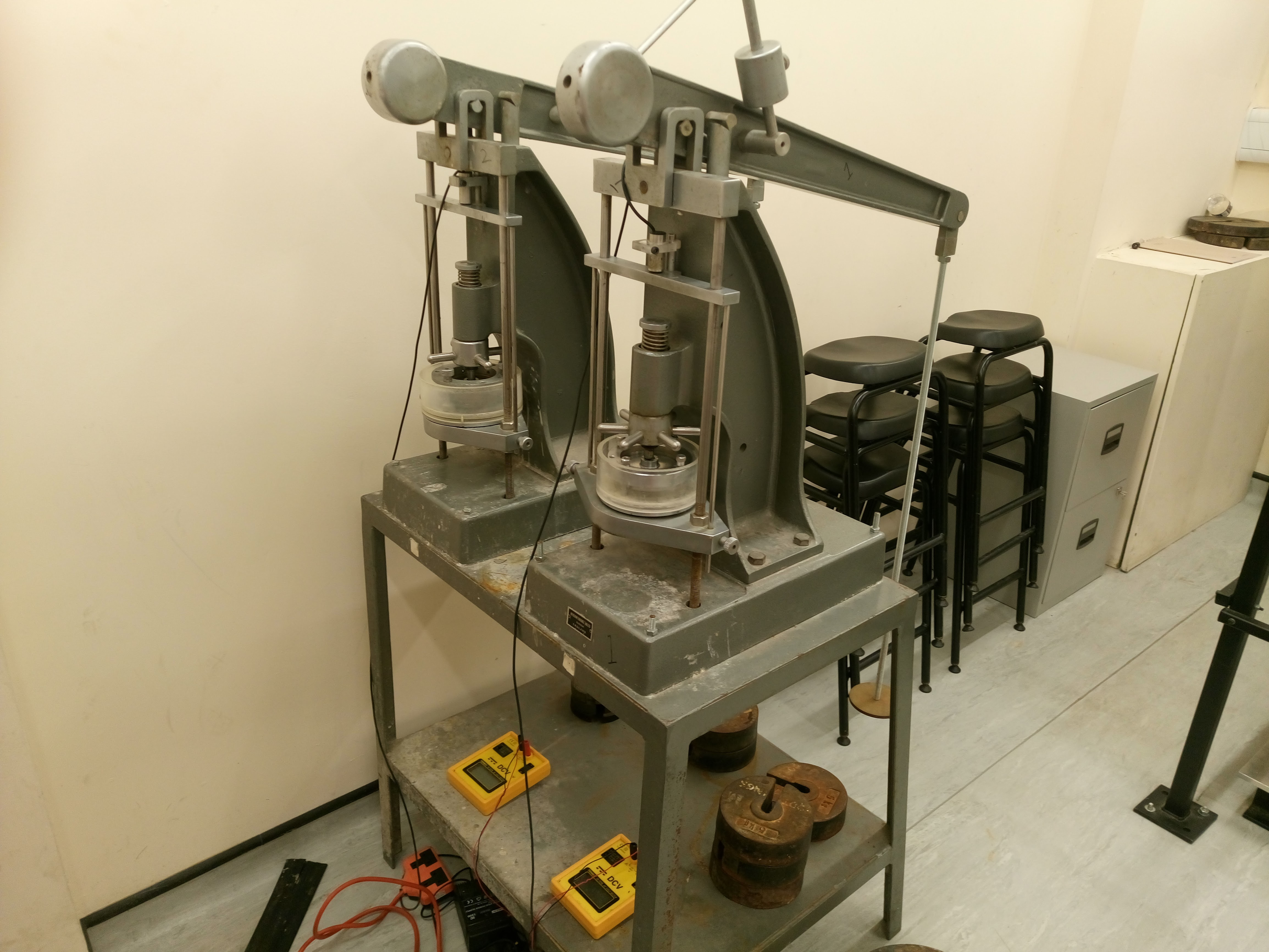 Two oedometers at the Department of Engineering, University of Cambridge